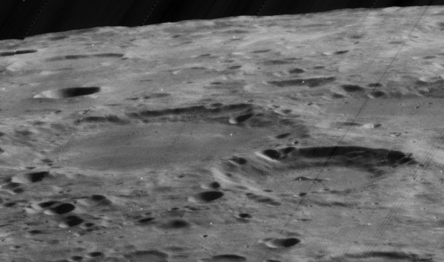 Oblique view of Hess (larger, left of center) and Boyle (smaller, right of center), on the far side of the moon, facing west.